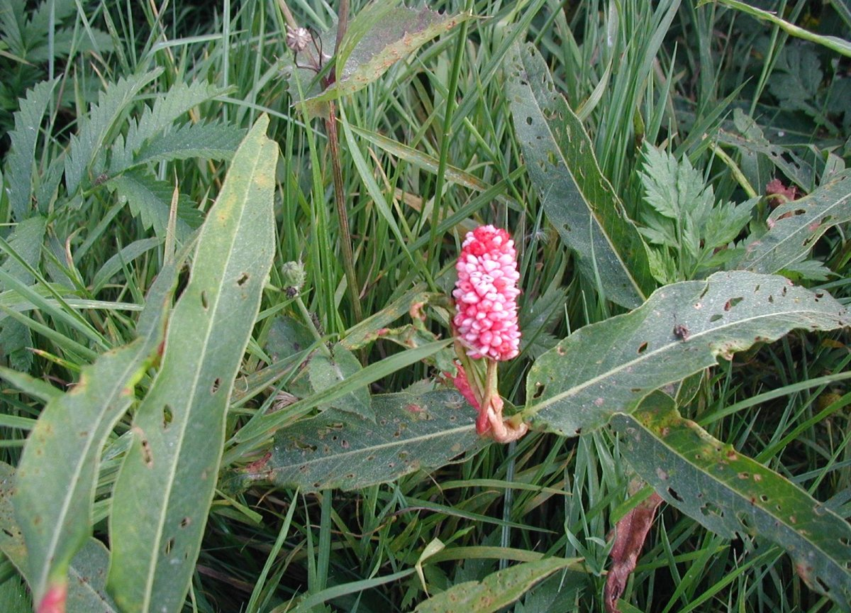 Persicaria amphibia (syn. Polygonum amphibium): Leaves and flowers. Photo: Sten Porse